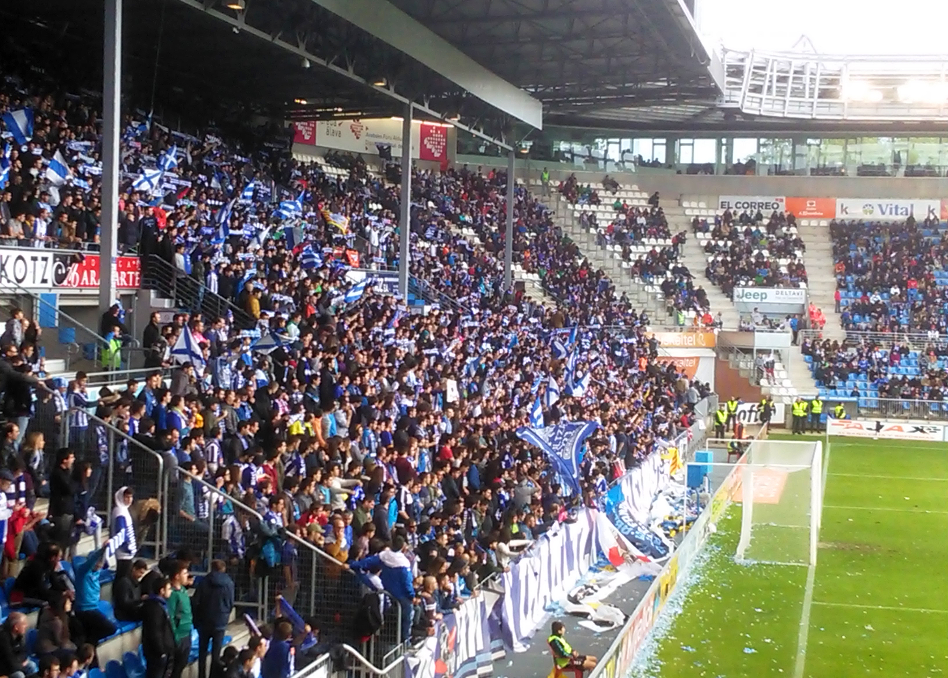 Iraultza 1921, Alaveseko zaleen taldea